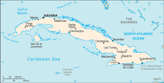 Cuba map from CIA World Factbook 2004, converted from original GIF format